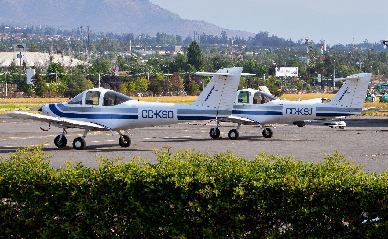 CC-KSO CC-KSJ Tomahawks at SCTB. Taken by me in January 2019.